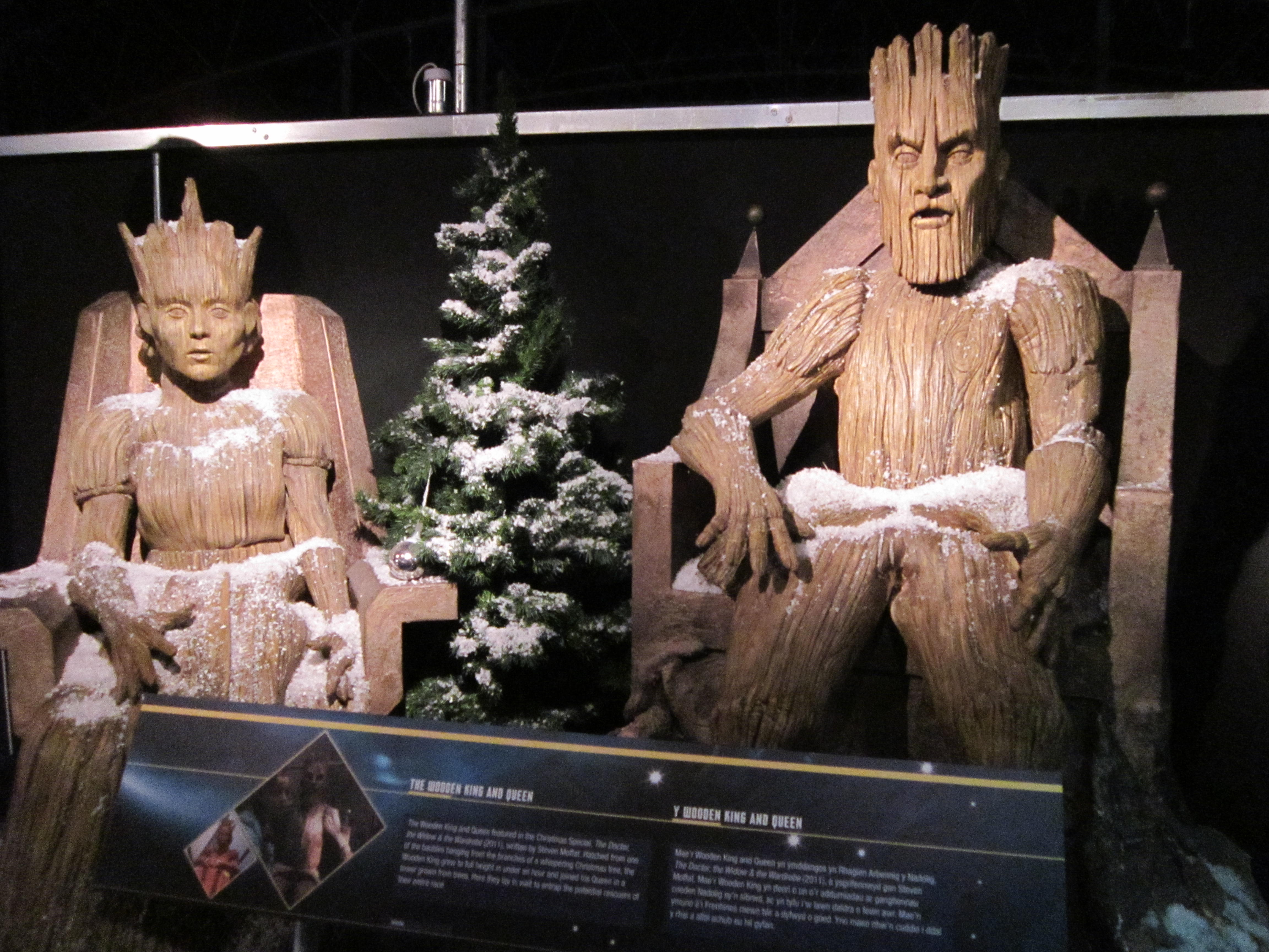 La Doctor Who Experience à Cardiff Doctor Who Experience